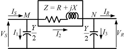 Nominal Pi model of Medium Transmission line